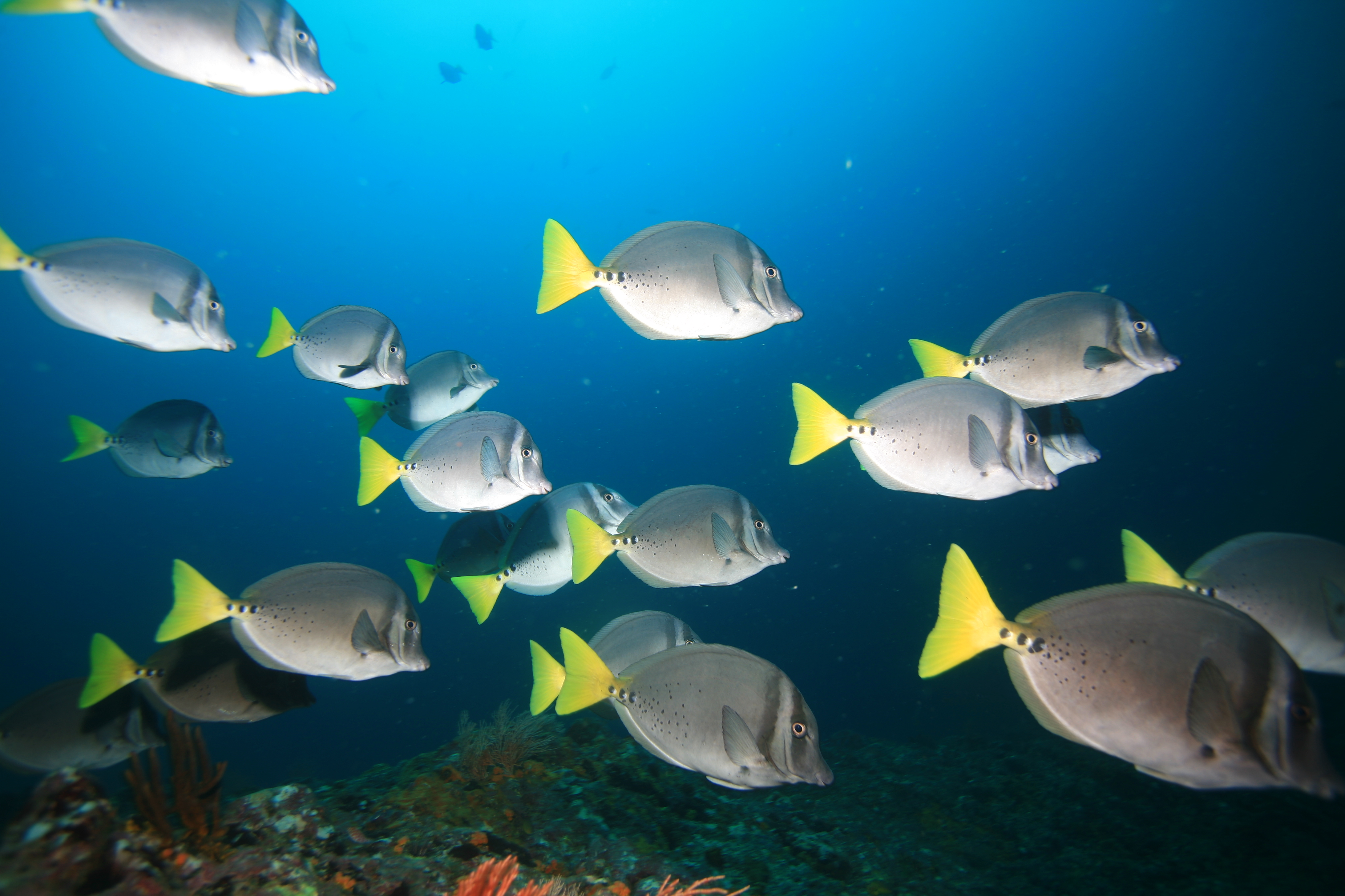 A school of Yellowtail Surgeonfish (Prionurus laticlavius) at Sombrero de Pelo (Hairy Hat) dive site, in Coiba National Park, Panama.